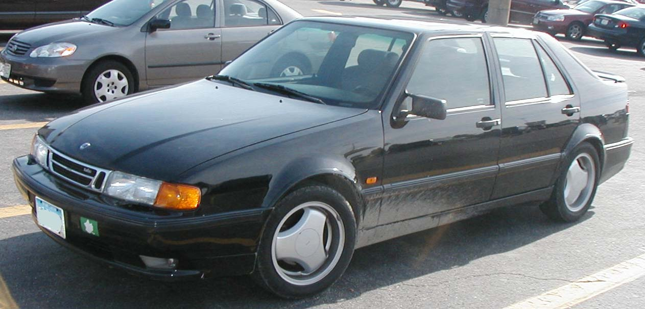 1992-1997 Saab 9000 photographed in USA.